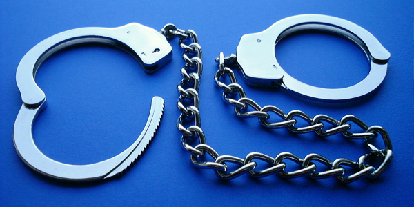 Pair of standard legirons made in Taiwan